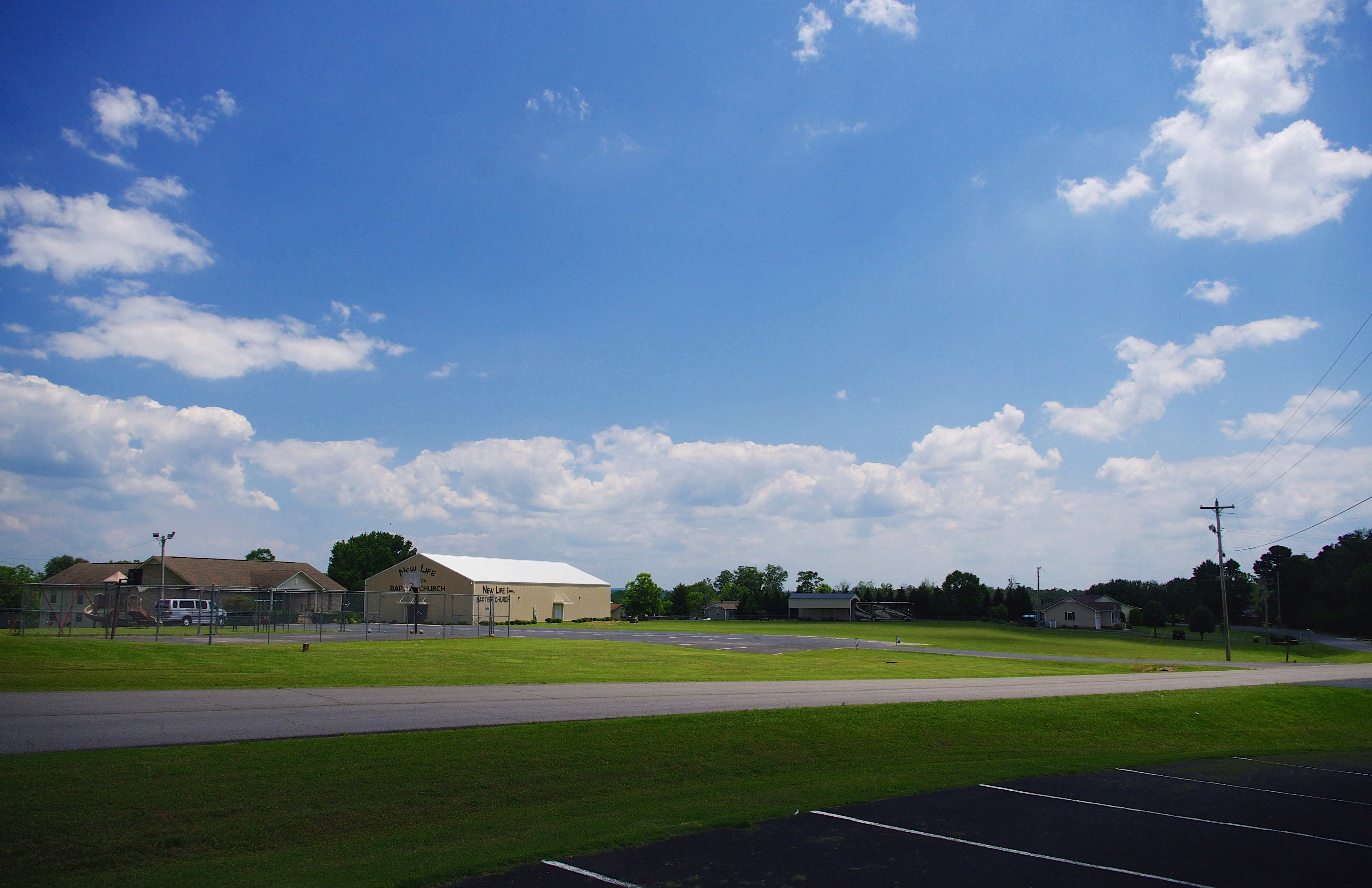 Buildings in Shiloh, Alabama, United States, looking east along Shiloh Ranch Road. The New Life Baptist Church is on the left.